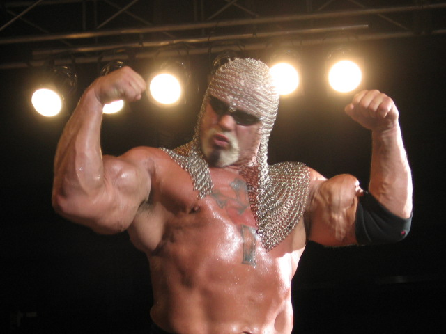 scott steiner